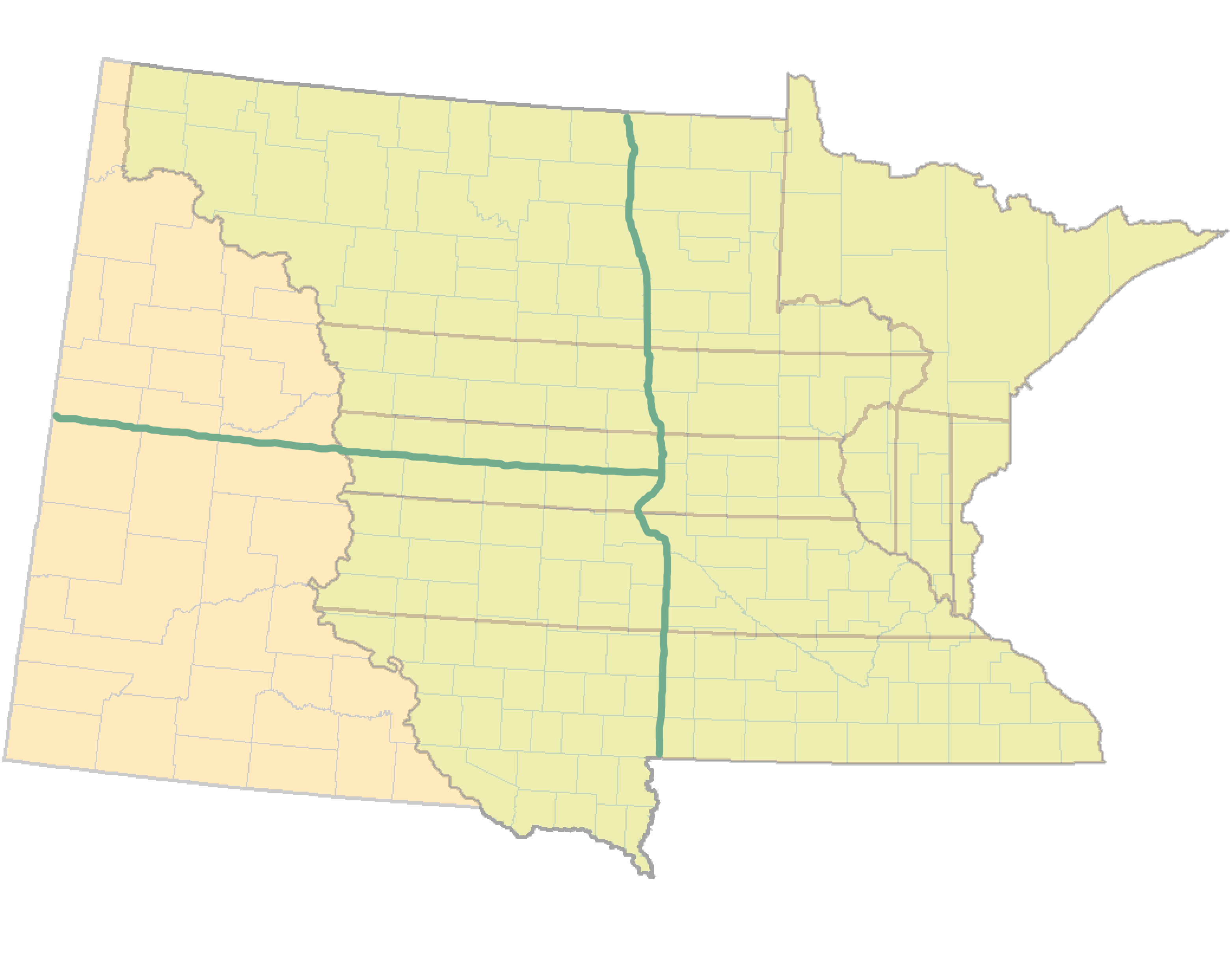 Minnesota Territory: 1849 to 1851